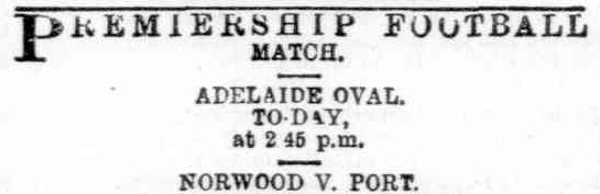 Advertisement for the 1889 SAFA Grand Final on the day of the match in the Express newspaper Adelaide.